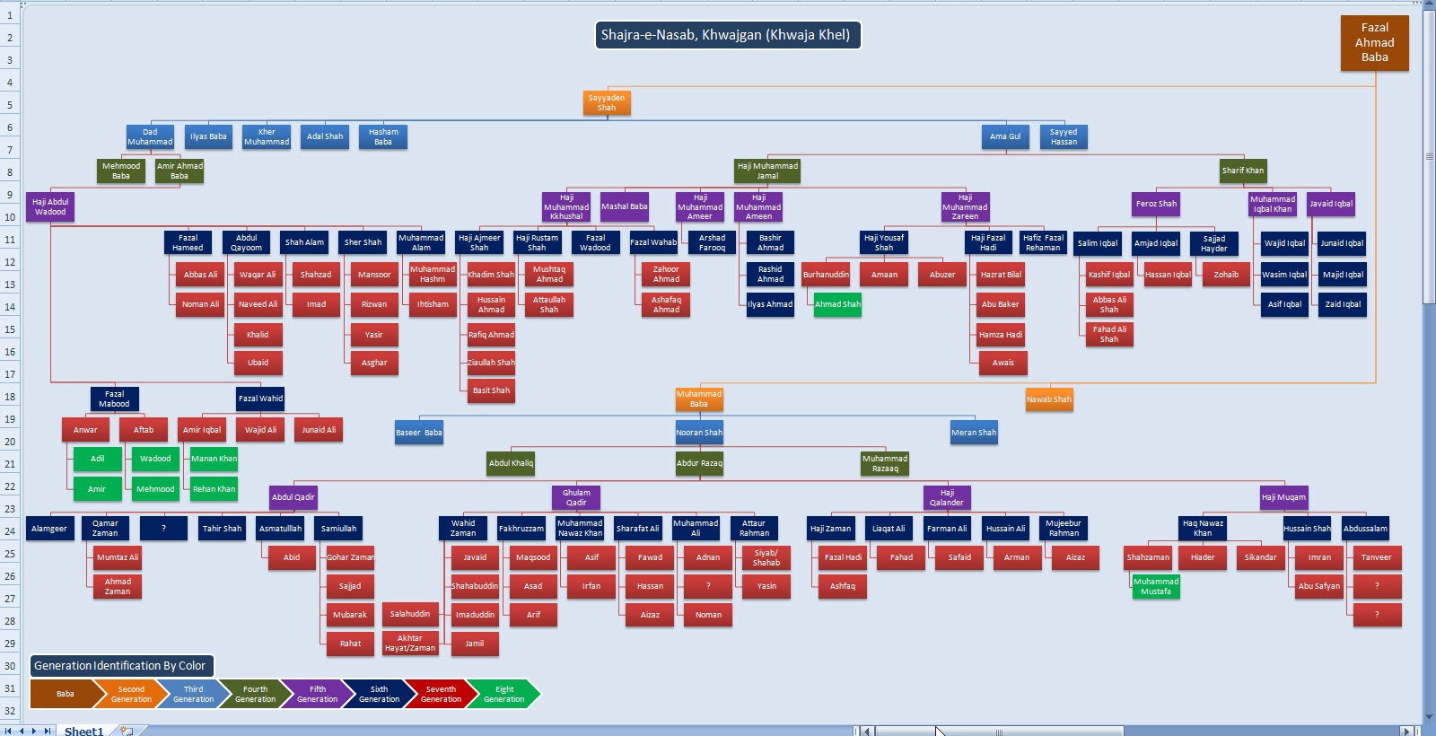 Family tree of Khwajgan (Khwaja Khel) in Swat District